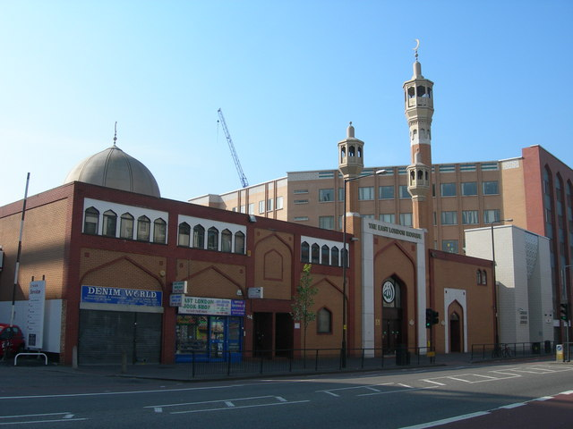 East London Mosque and London Muslim Centre. These buildings are next door to each other on the Whitechapel Road.